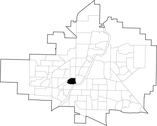 A map showing the location of the Riversdale neighbourhood in relation to the other neighbourhoods in Saskatoon.